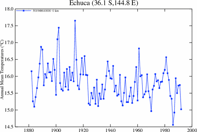 Graph of 1881-1992 air average temperature of Echuca, South of Victoria, Australia